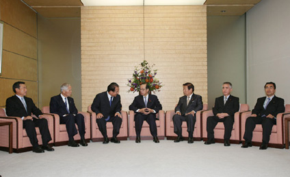 Wataru Asō, President of the National Governors' Association, talked with Yasuo Fukuda, Prime Minister, at the Prime Minister's Official Residence in Chiyoda Ward, Tōkyō Metropolis on October 4, 2007.